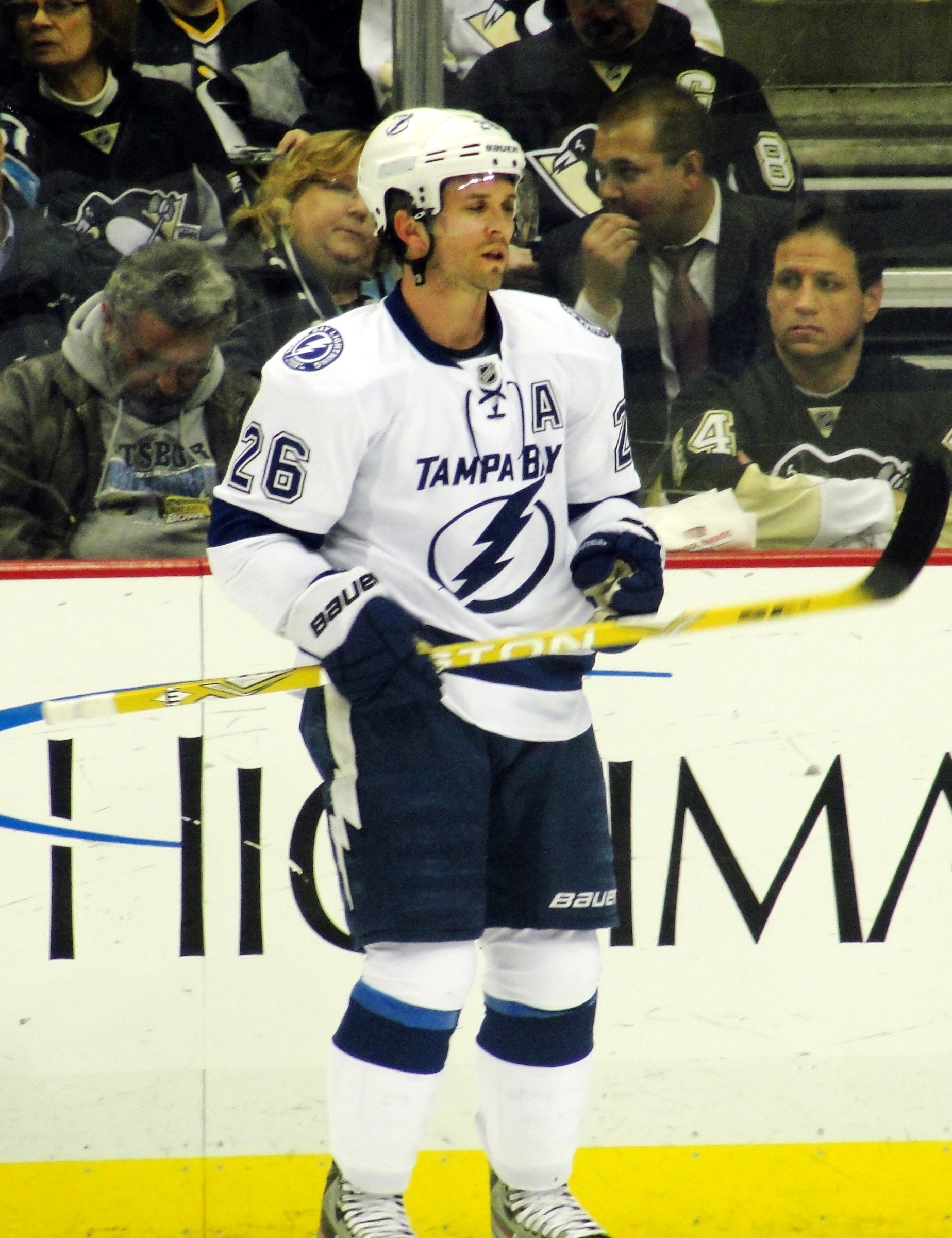 Martin St. Louis of the Tampa Bay Lightning during a February 12, 2012 game against the Pittsburgh Penguins at Consol Energy Center in Pittsburgh, PA.